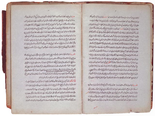 A copy of the Hikayat Abdullah (1843) by Abdullah bin Abdul Kadir (Munshi Abdullah, 1796–1854) written in Malay in the Jawi script, from the Jawi Manuscript Collection, Asian Division, Library of Congress. When the United States Exploring Expedition led by Charles Wilkes was in Singapore in 1842, Wilkes asked a missionary named Alfred North to send him a copy of Abdullah's autobiography to him in the United States. The work was completed in 1843, and eventually found its way into the Smithsonian Institution. In 1865, the Smithsonian transferred the manuscript to the Library of Congress, where it became one of the first Asian books to enter its collections. See White whales and Bugis books. Asian Collections: Library of Congress: An Illustrated Guide, Library of Congress (1 November 2005). Retrieved on 2008-11-18.